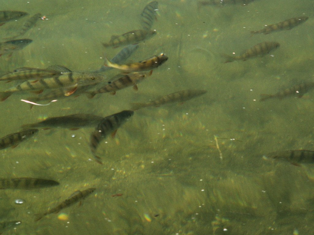 European perch (Perca fluviatilis, Linnaeus, 1758)